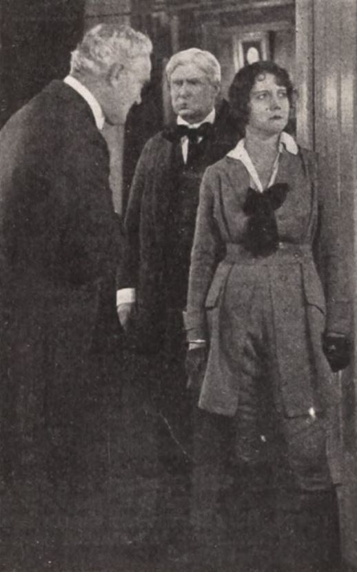 Still from the American melodrama film Chain Lightning (1922) with Ann Little, on page 54 of the April 8, 1922 Exhibitors Herald.